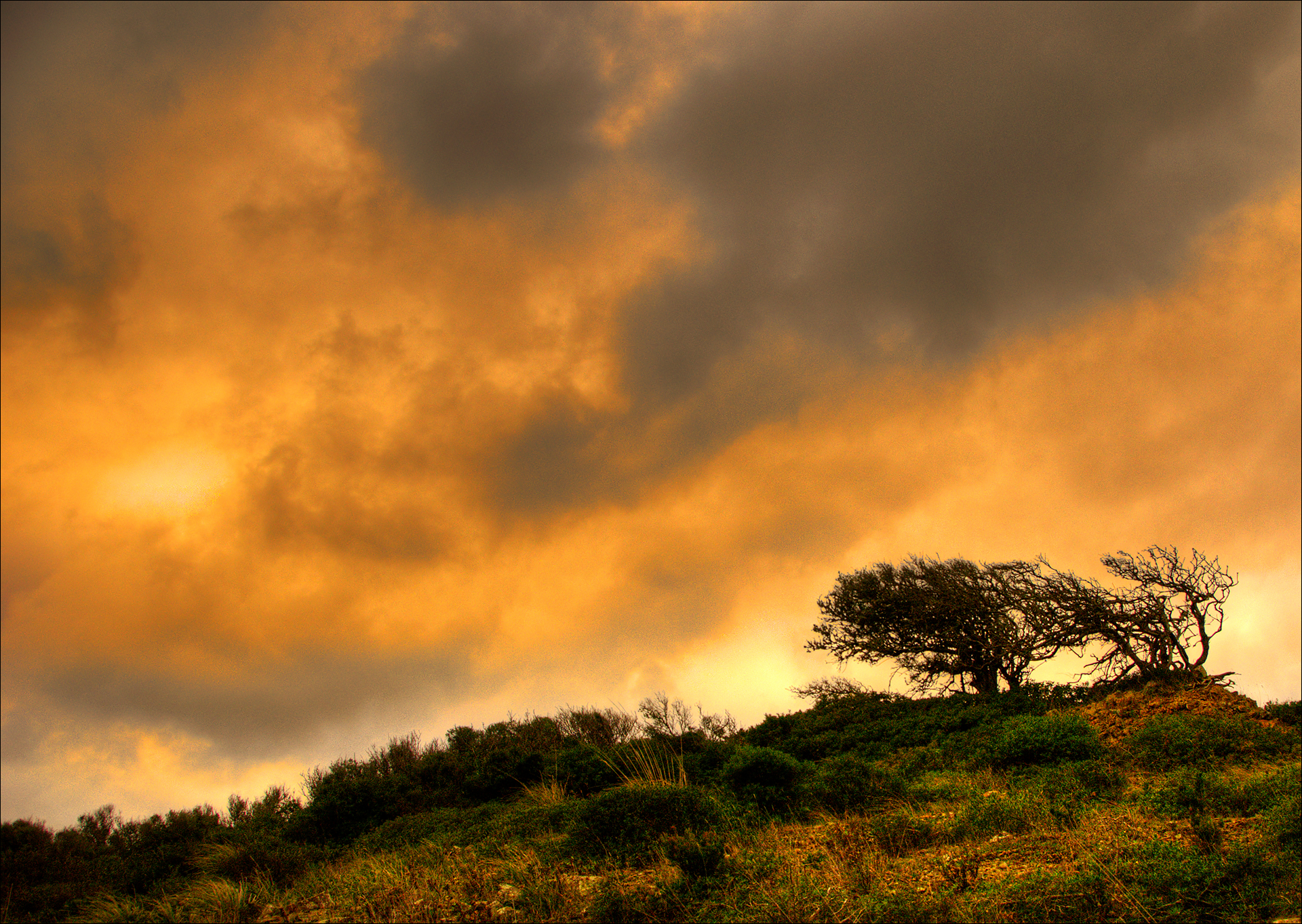 Minorca, Balearic Islands: Natural Reserve of Albufera des Grau.